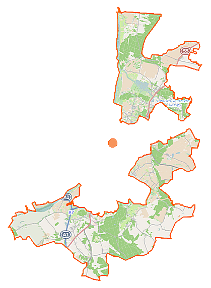 Map of Gmina Grudziądz, Poland This map of Grudziądz (gmina wiejska) was created from OpenStreetMap project data, collected by the community. This map may be incomplete, and may contain errors. Don't rely solely on it for navigation. Border coordinates53.617018.5847←↕→18.904753.3559